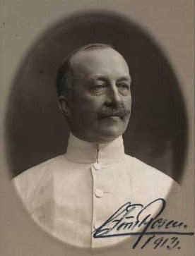 Carl Frederik Herman von Rosen (1860-1932), Danish officer and civil servant